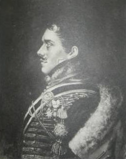 Edouard de Roulle